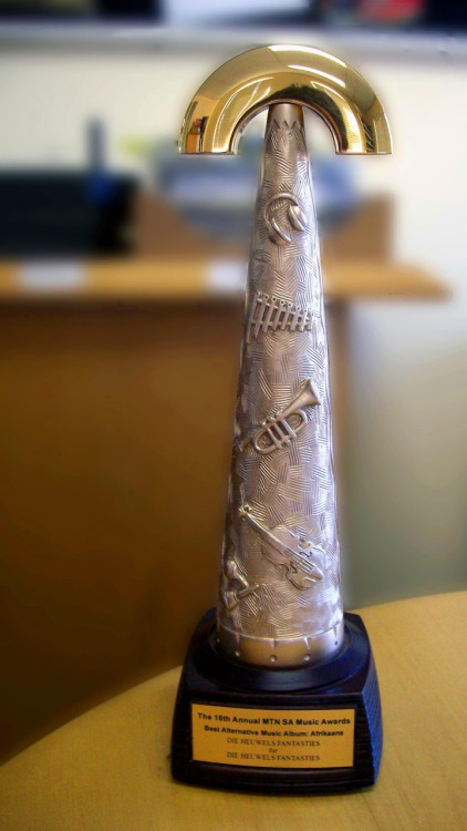 Actual award presented during SAMAs